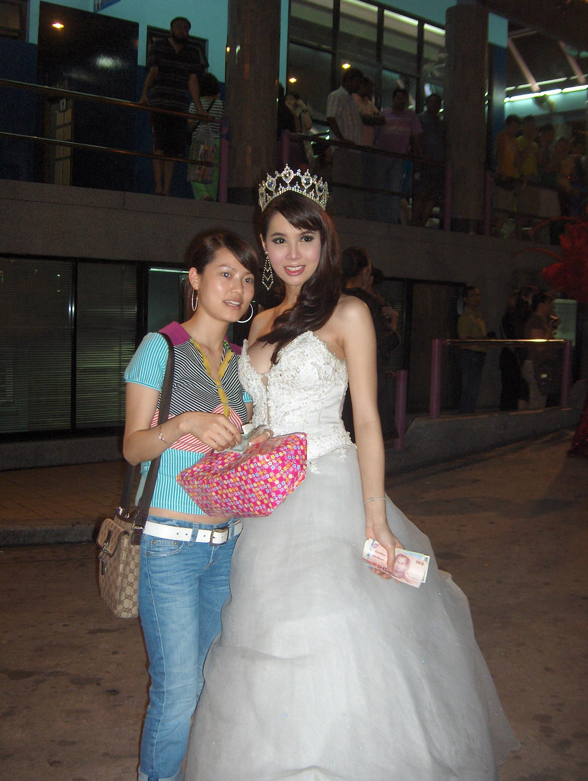 Transwoman, Male-to-female, Ladyboy, Kathoey at Alkazar show in Pattaya, Thailand; the beside one was a vietnamese female